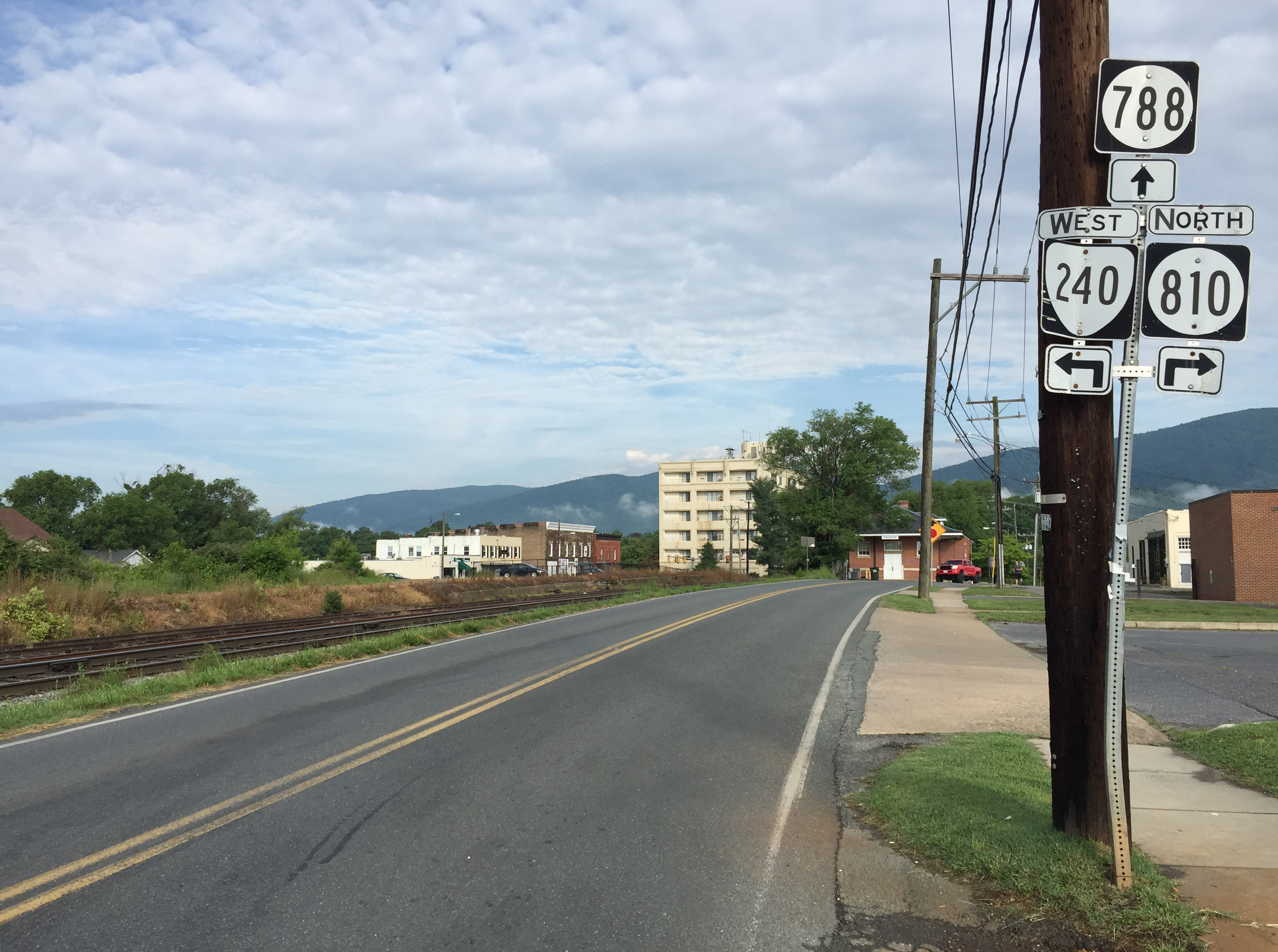 View west along Virginia State Route 240 (Three Notch'd Road) just west of the junction with Railroad Avenue (Virginia State Secondary Route 788) and Crozet Avenue (Virginia State Secondary Route 810) in Crozet, Albemarle County, Virginia